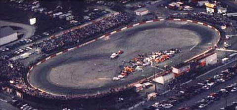 A pic from my grandfather's collection